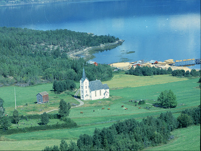 Vestvik Church of Mosvik, Norway. Aerial photo from 1961